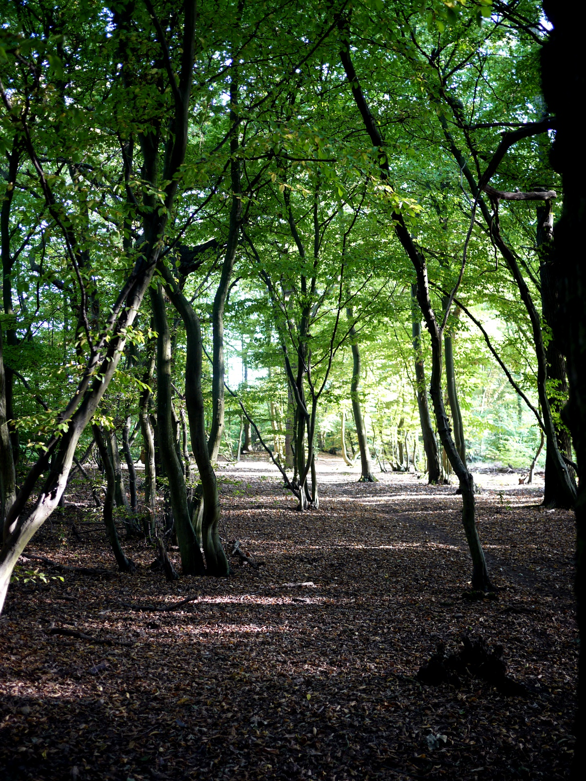 European Hornbeam (Carpinus betulus), 20-30 year old coppice, Pond Wood, Essex, England